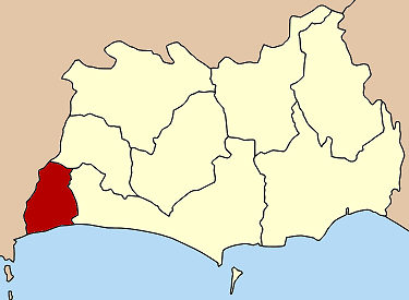 Map of Rayong province, Thailand, highlighting Amphoe Ban Chang.